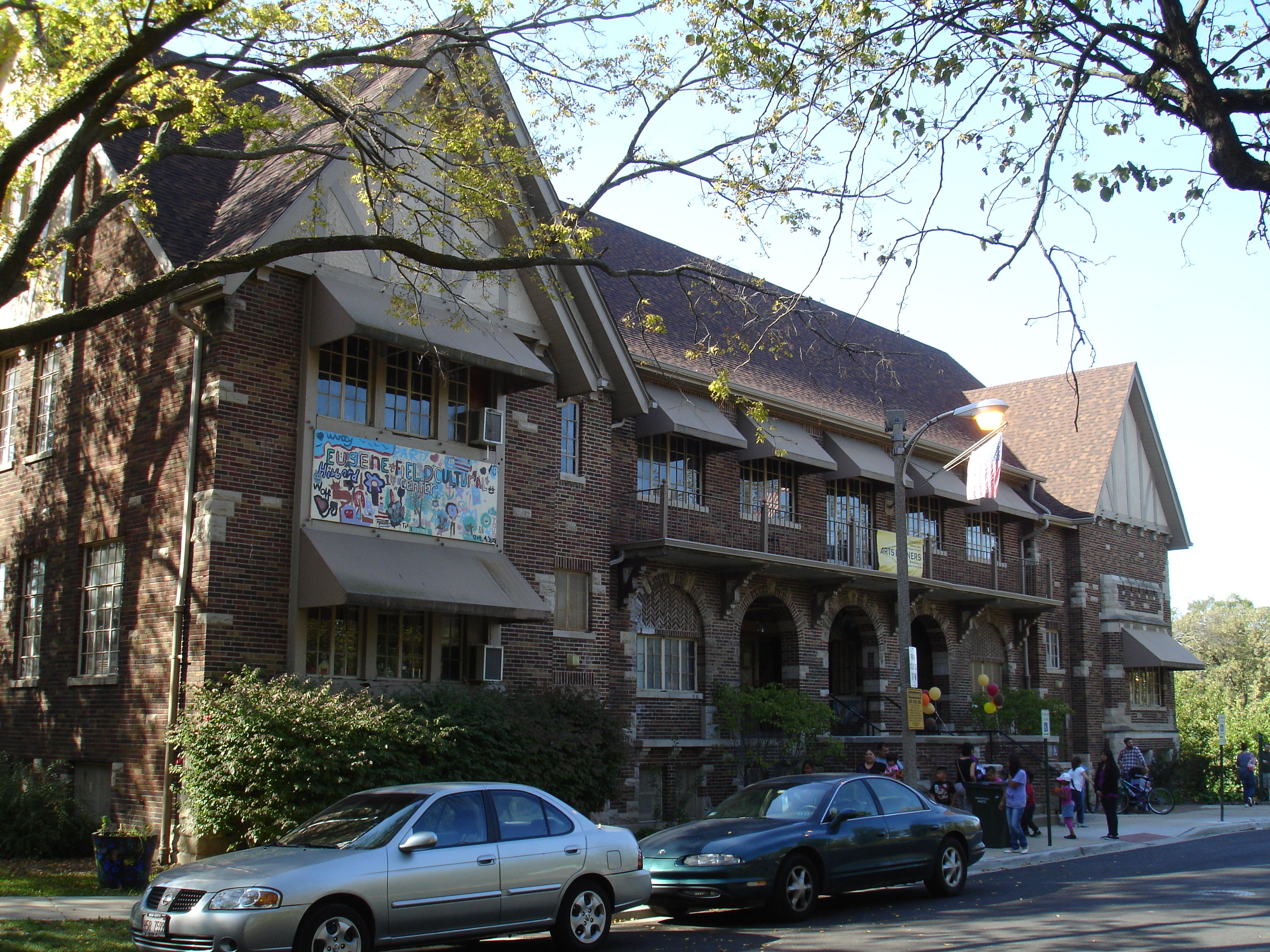 The 1930 Clarence Hatzfield designed Tudor Revival field house at Eugene Field Park in the Albany Park neighborhood of Chicago.